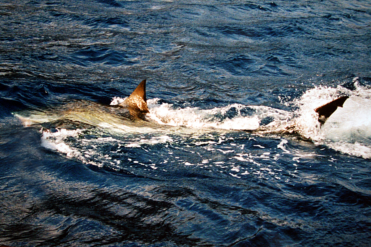 A great white shark at Isla Guadalupe, Mexico. The picture is a digital copy of my old film picture.